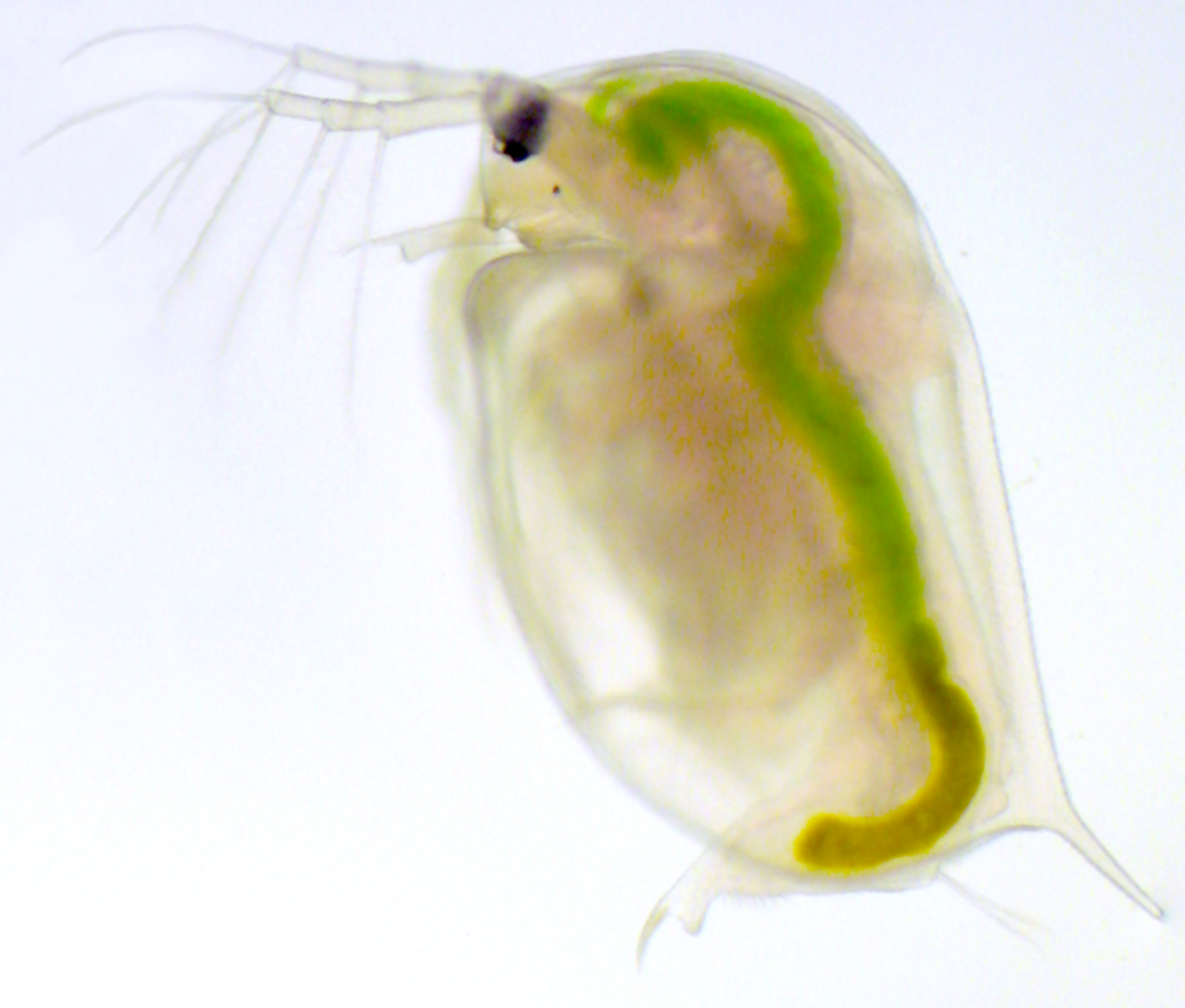 A micrograph of an adult male of the cladoceran Daphnia magna, highlighting the first antenna, a diagnostic character much reduced in females of the same species. Note also the absence of a brood chamber, the short rostrum, and reinforced superior edge of the carapace. This individual measured 1.8 mm in length, and the micrograph was taken with an Olympus BH-2 microscope using bright-field illumination.